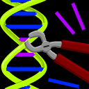 An icon showing pair of pincers tinkering with some DNA.